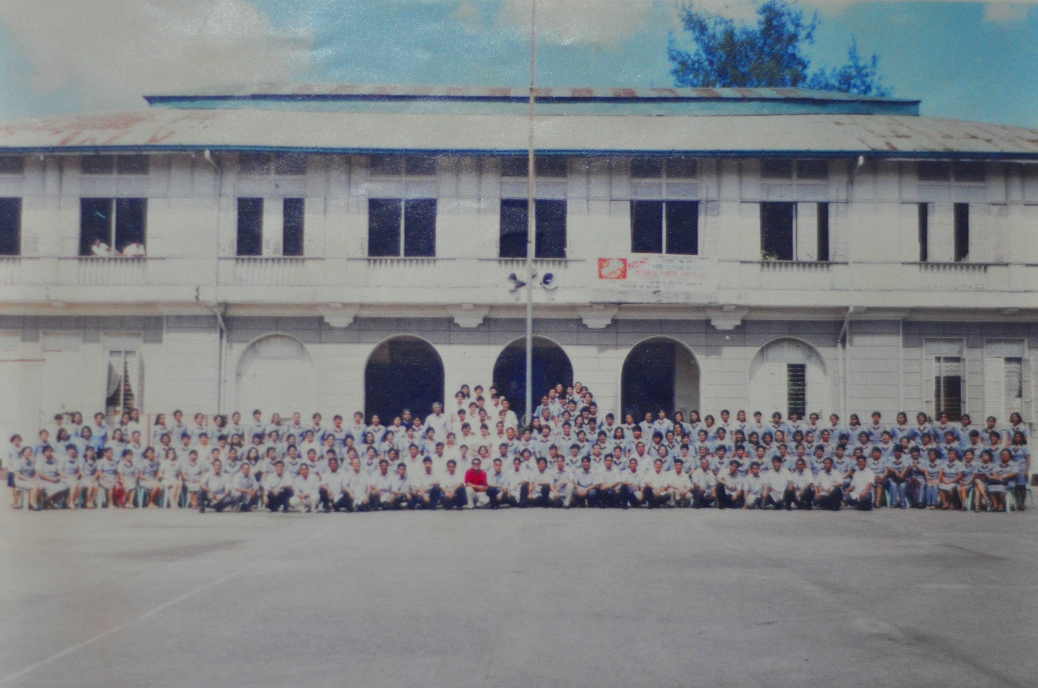 Camarines sur national high school in 2002 faculty and staff 2